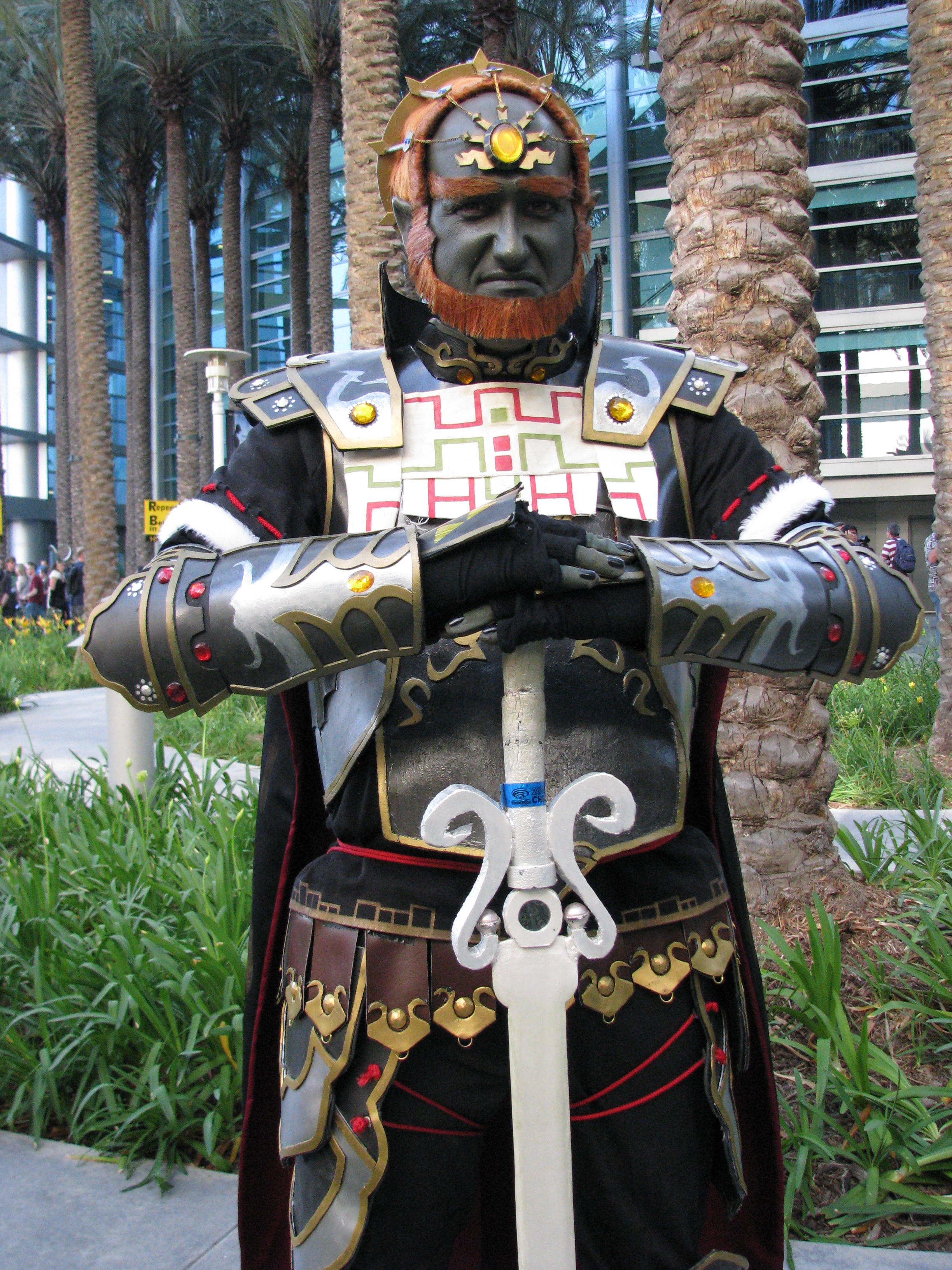 WonderCon 2014 - Ganandorf cosplay